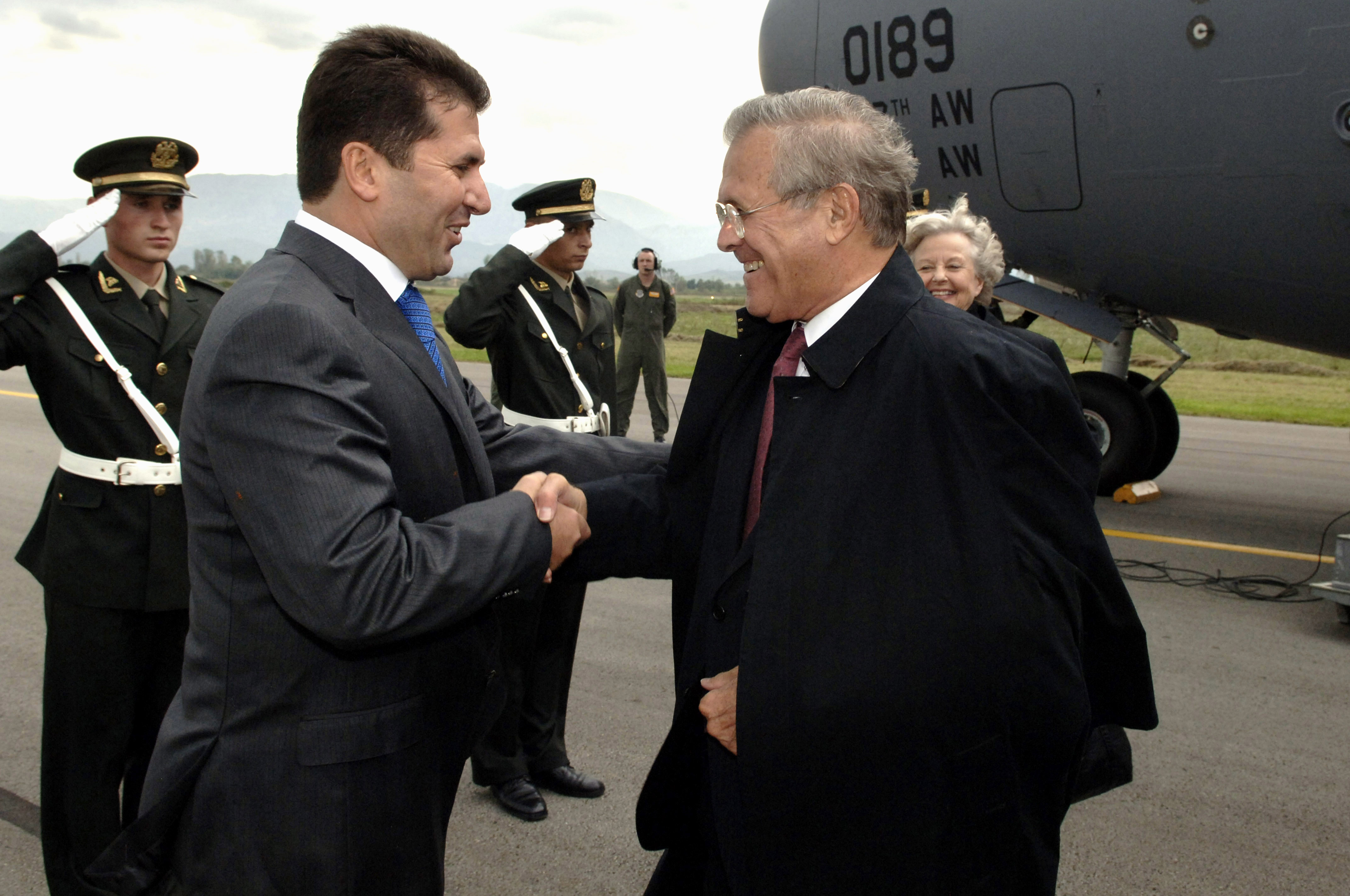 Albanian Minister of Defense Fatmir Mediu (left) greets Secretary of Defense Donald H. Rumsfeld as he arrives at Tirana, Albania, on Sept. 26, 2006. Rumsfeld is in Albania to attend the South Eastern European Defense Ministerial, and to encourage Albania's continuing efforts to join NATO.